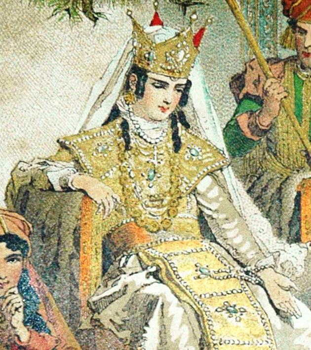 Queen Tamar receives a poem presented by Shota Rustaveli; Detail face Queen Tamar